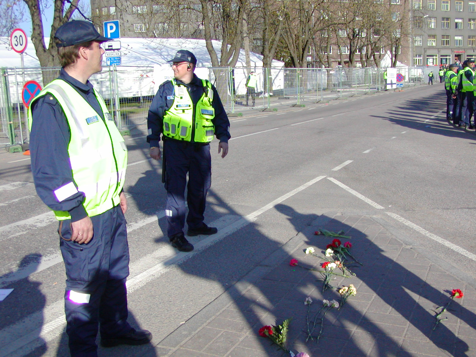 Protest against the demolition of the Bronze Soldier of Tallinn, a World War II memoral commemorating the libration of Estonia from Nazism by Soviet forces.